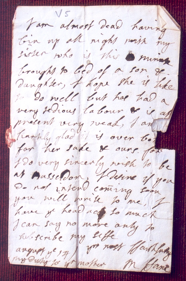 "Mary ffane, in St. James', London, to her husband Charles Fane, (Viscount Fane from 1718), in Lower Basildon, Berkshire, reporting the birth of the future Philip, 2nd Earl Stanhope in August 1714. Mary Fane was daughter of Hon. Alexander Stanhope, FRS. Her brother James Stanhope was the father of the boy just born. Where she says sister she means her sister-in-law, Lucy Pitt (1692–1723), at the time Mrs. Stanhope. Stanhope was ennobled in 1717 and 1718." Transcription Original spelling and punctuation uncorrected. Portions in brackets are obscured by tearing or blotting of the letter. I am almost dead having bin up all night with my sister who is this minute brought to bed of a son & daughter, I hope she is like to do well but has had a very tedious labour & is at present very weak, I am hartily glad it is over bot[h] for her sake & ours. [for] I do very sincerly wish to be at Basseldon, I desire if you do not intend coming soon you will write to me, I have ye head ac[he] so much I can say no more only to subscribe my selfe yrs most ffaithfully M. ffane August ye 14 My duty to yr mother Rodolph 02:04, 22 January 2007 (UTC)